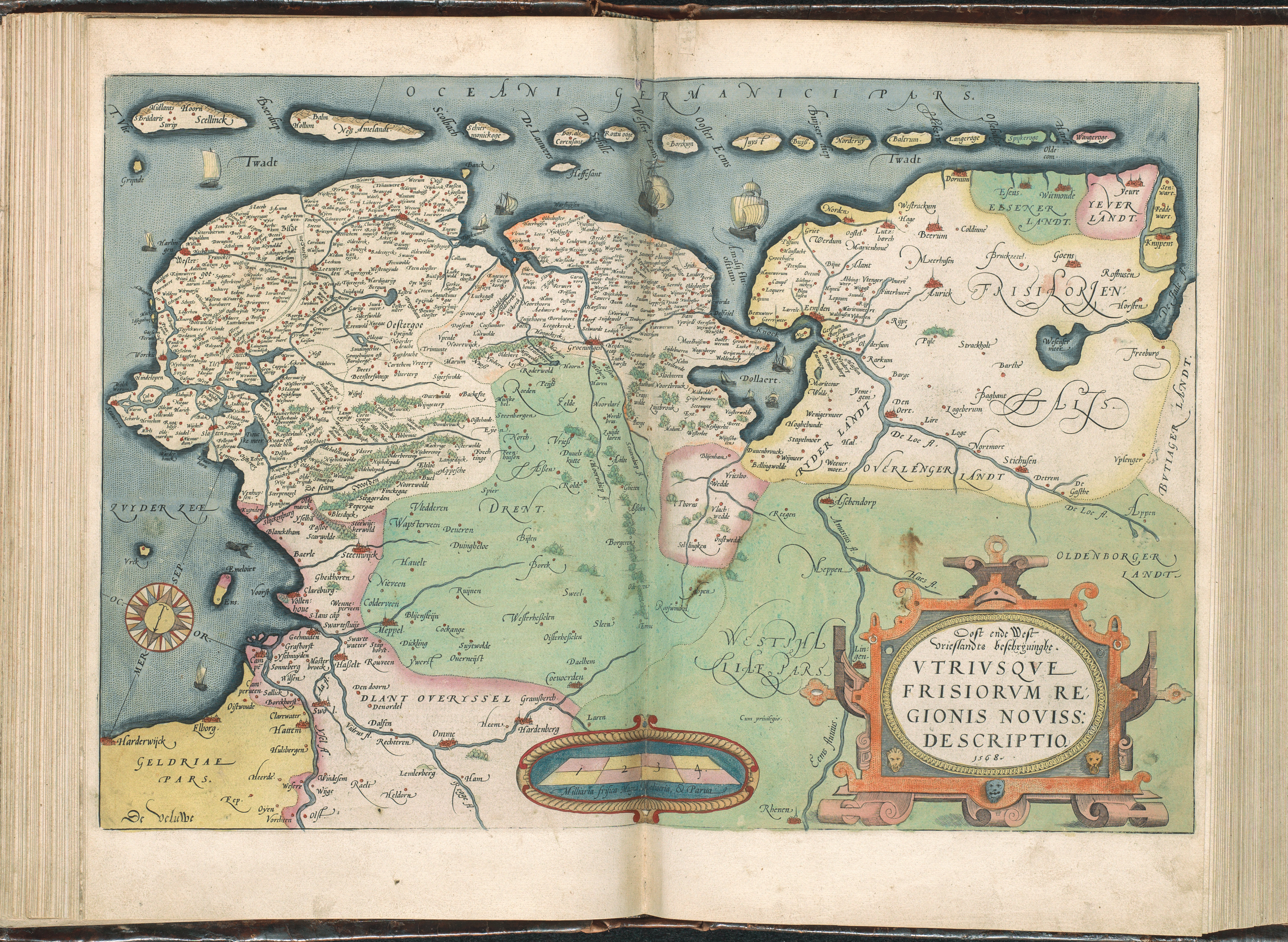 Plate '036av-036br' from the Atlas Ortelius by Abraham Ortelius. Original edition from 1571 with additions from 1573, 1579 and 1584. Complete description of this work (in Dutch) is available here. On this map North East of the Netherlands is shown.